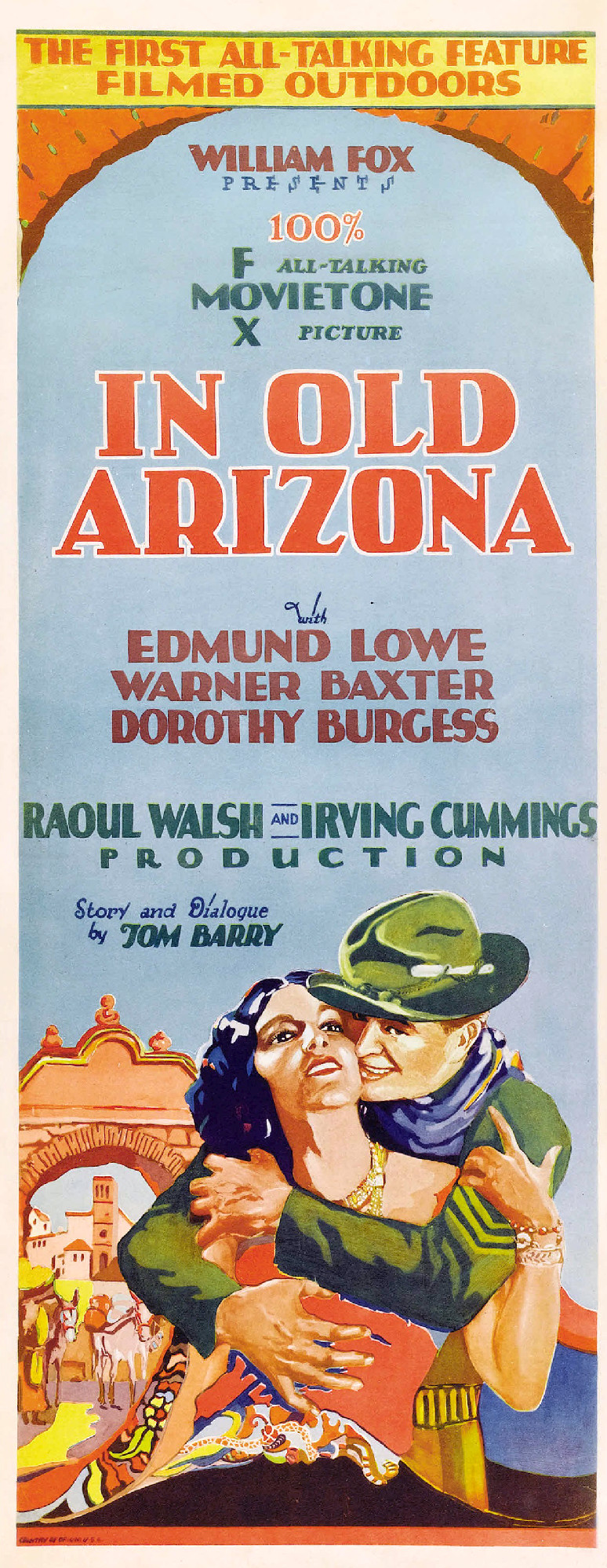 Poster for the 1928 film In Old Arizona.